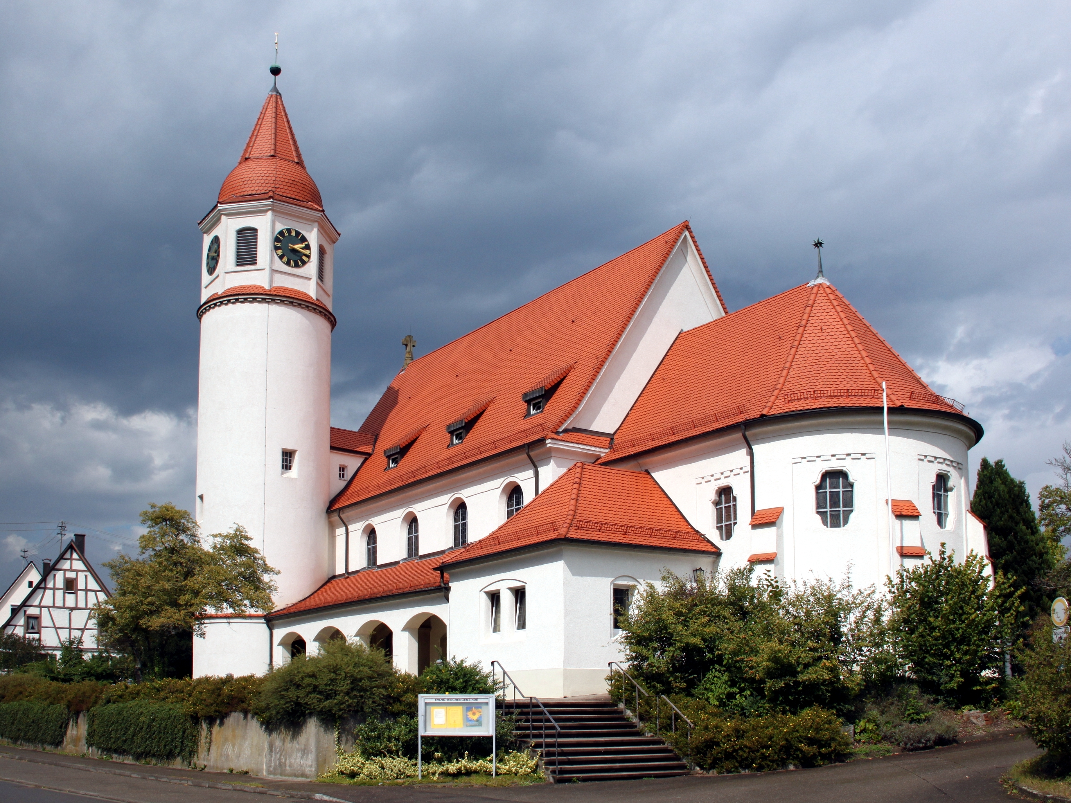 Balingen-Dürrwangen (Ebinger Straße): Petrus-Kirche (Lutheran; erected 1912/14).